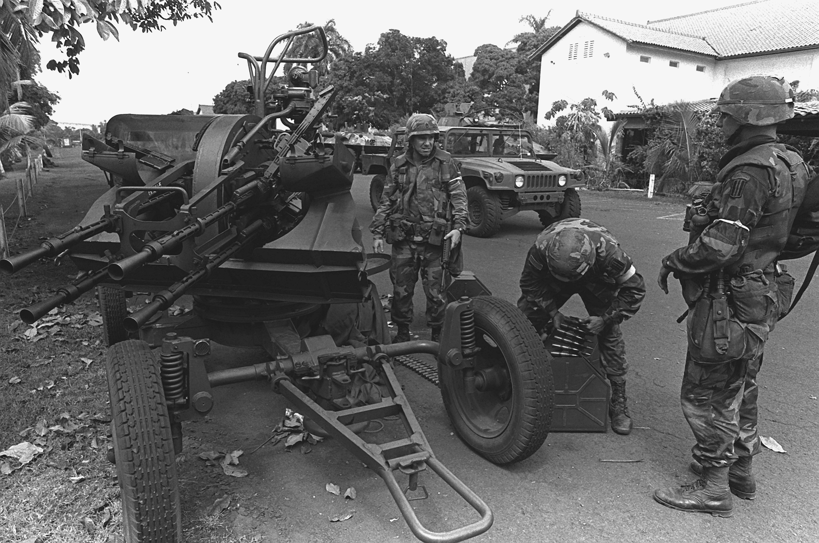 Three 5th Infantry Division (Mechanized) soldiers inspect a Soviet-made ZPU-4 14.5mm anti-aircraft machine gun left behind by Panamanian Defense Force soldiers who fled the base during the early stages of Operation Just Cause.